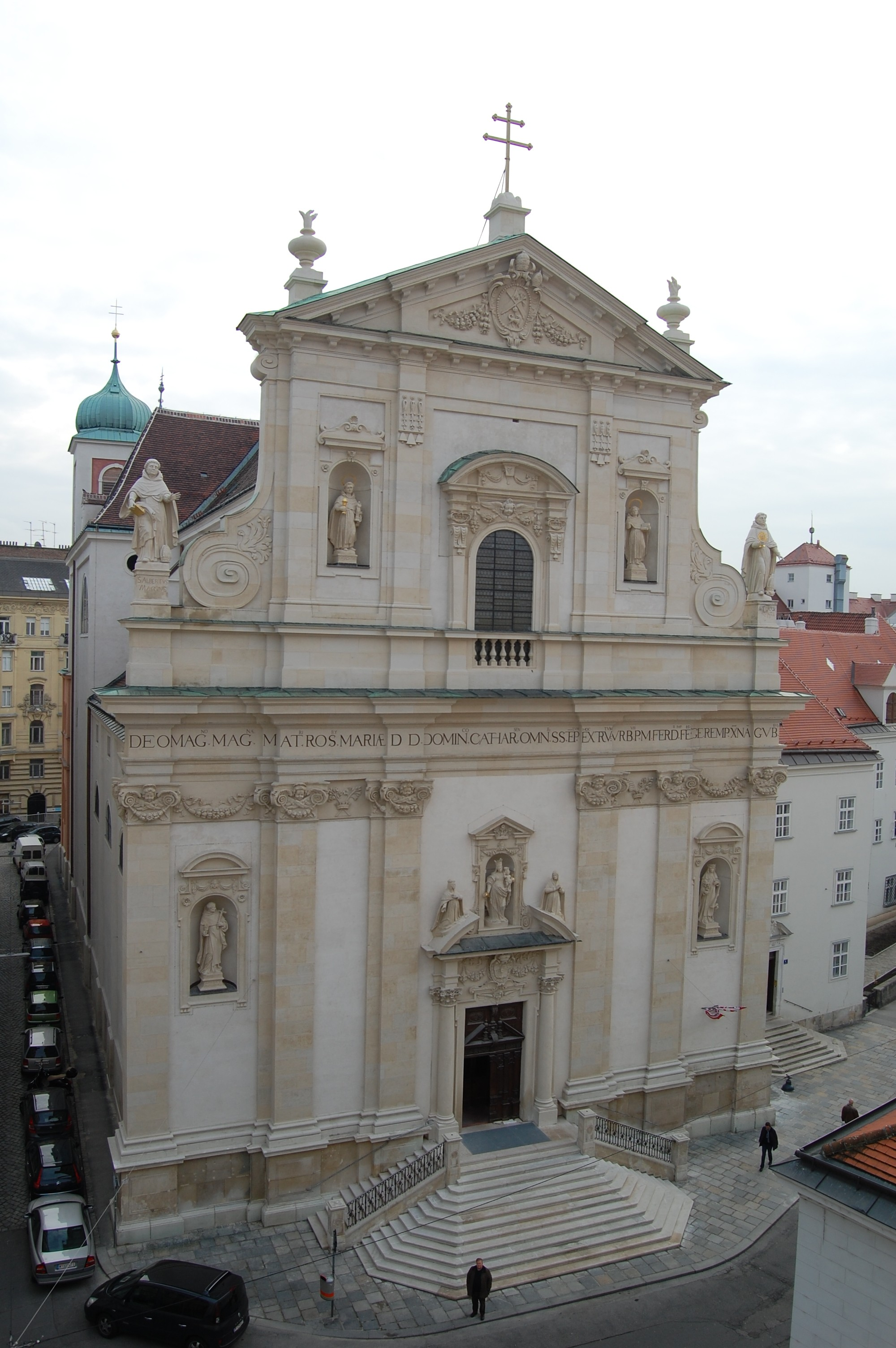 Dominikanerkirche in Vienna. In Latin Basilika minor ad Sancta Mariam Rotondam. Constructed 1631-34 by Jakob Spatz, Cipriano Biasino and Antonio Canevale.